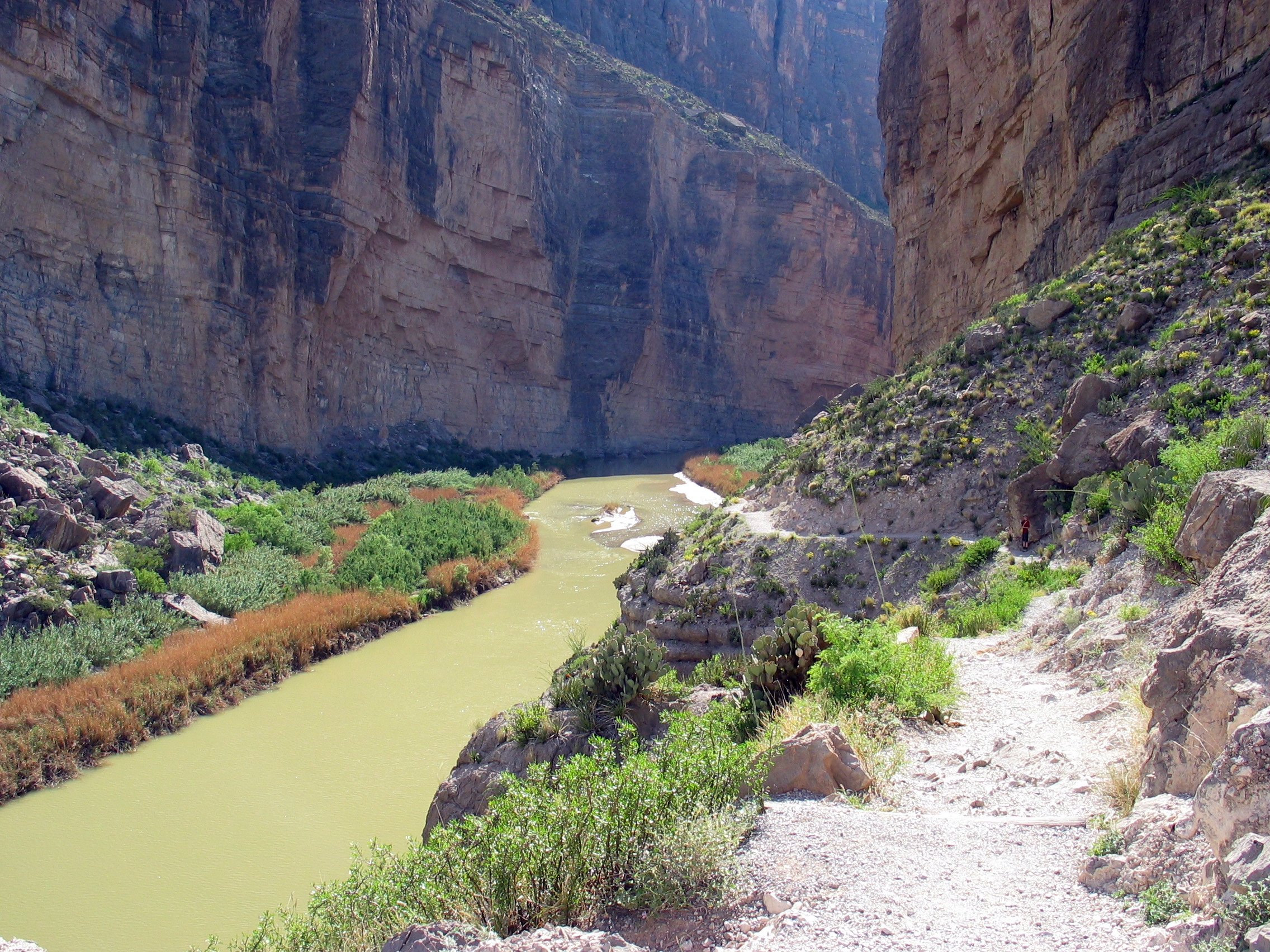 Inside Santa Elena Canyon, Rio Grande in Big Bend National Park, Texas